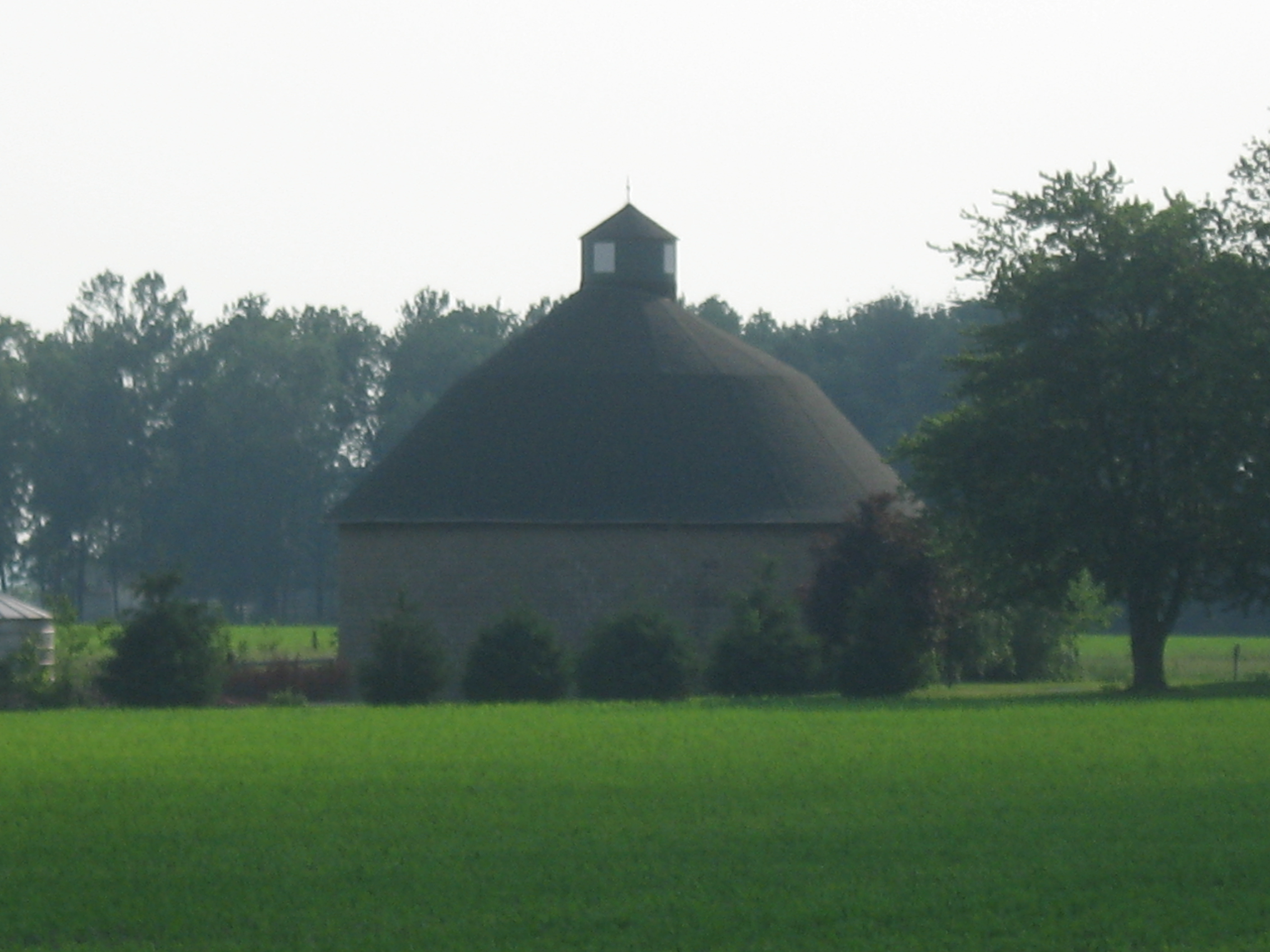 View from the west of the Andrew B. VanHuys Round Barn, located at 755 W. 125S south of Lebanon in Center Township, Boone County, Indiana, United States. Built in 1912, it is listed on the National Register of Historic Places.